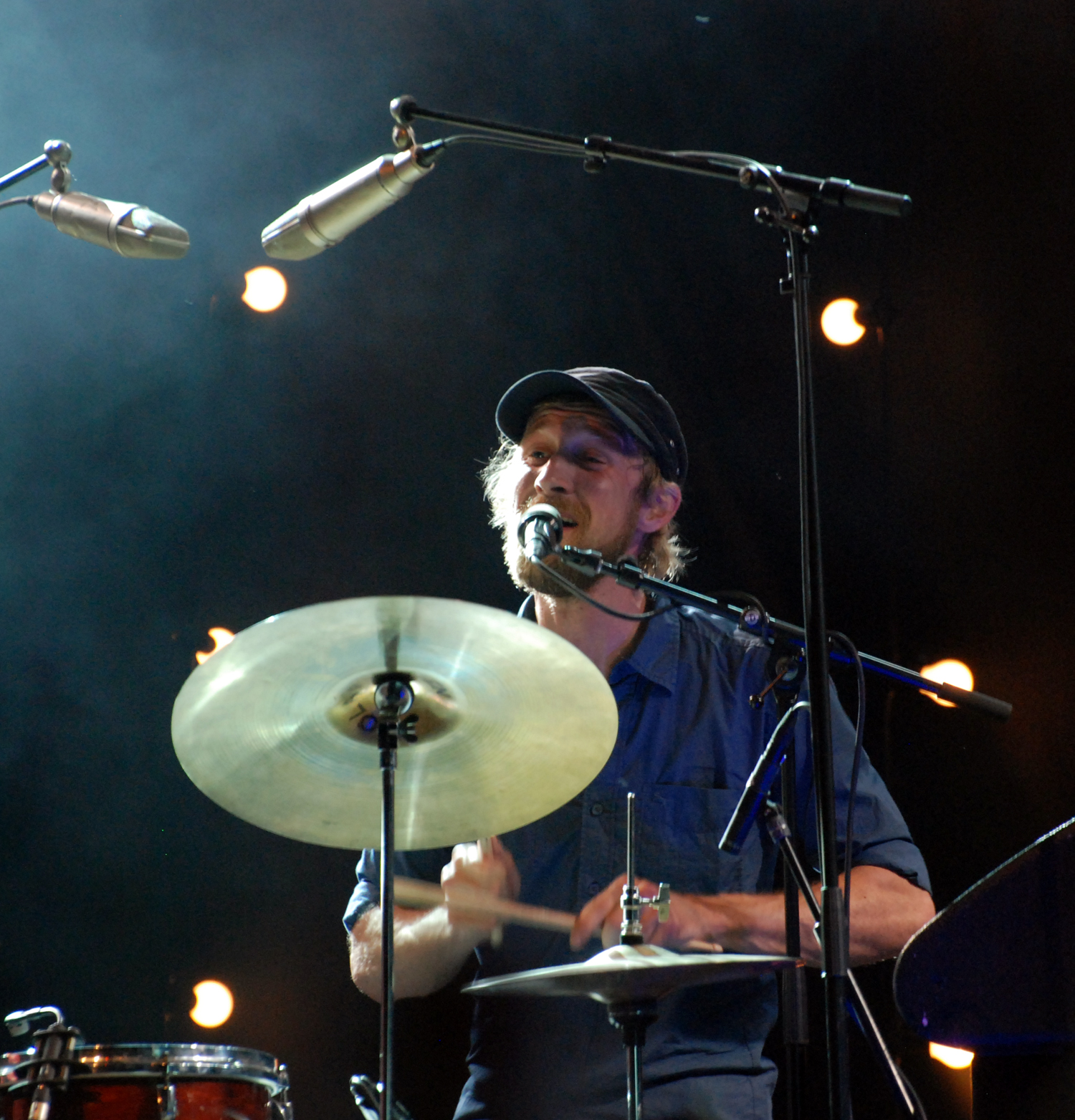 Olaf Olsen of Bigbang live at Hamar Music Festival 2009.